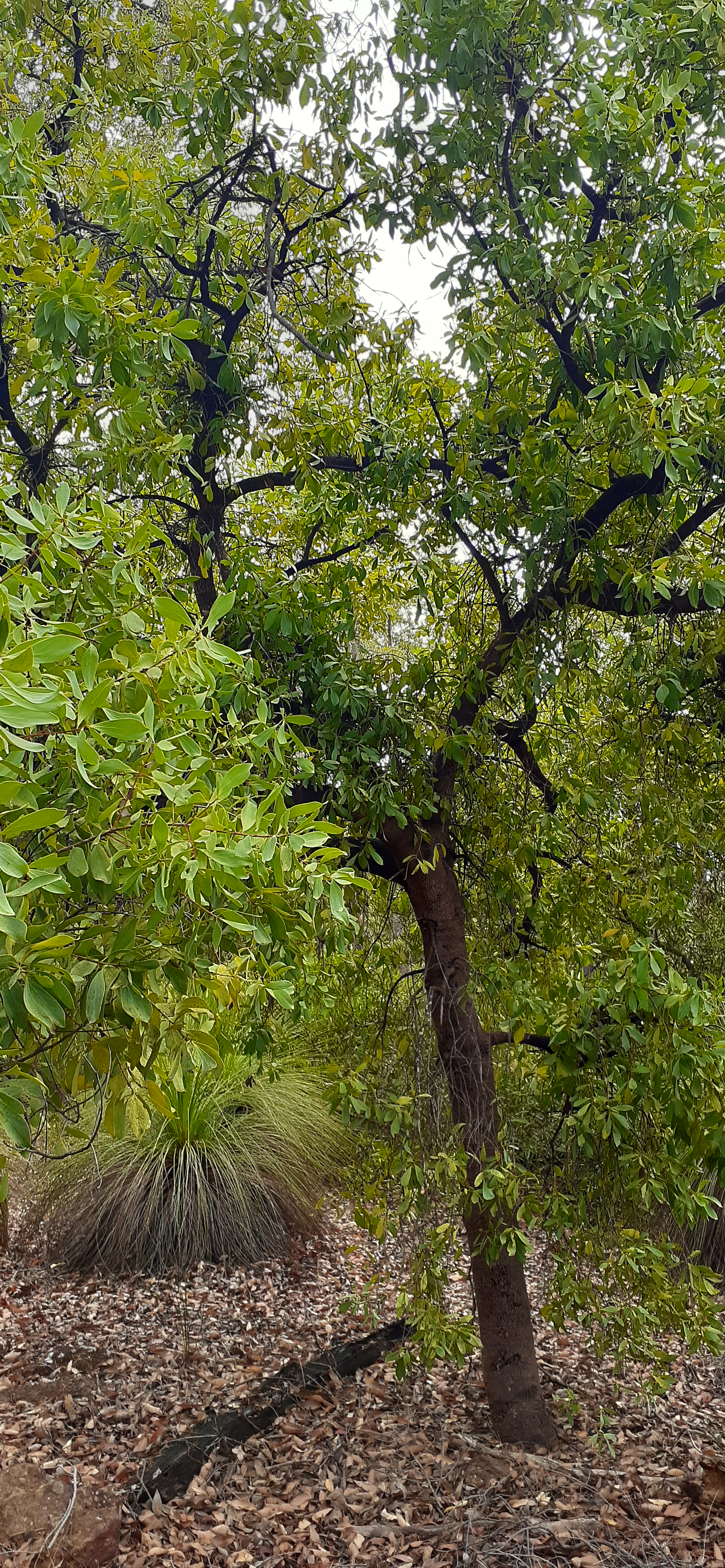 Example of Persoonia Elliptica Tree, approx. 5-6m in height, from Mundaring, Western Australia, among Marri & Jarrah trees.